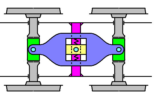 Scheme of Beugniot bogie.